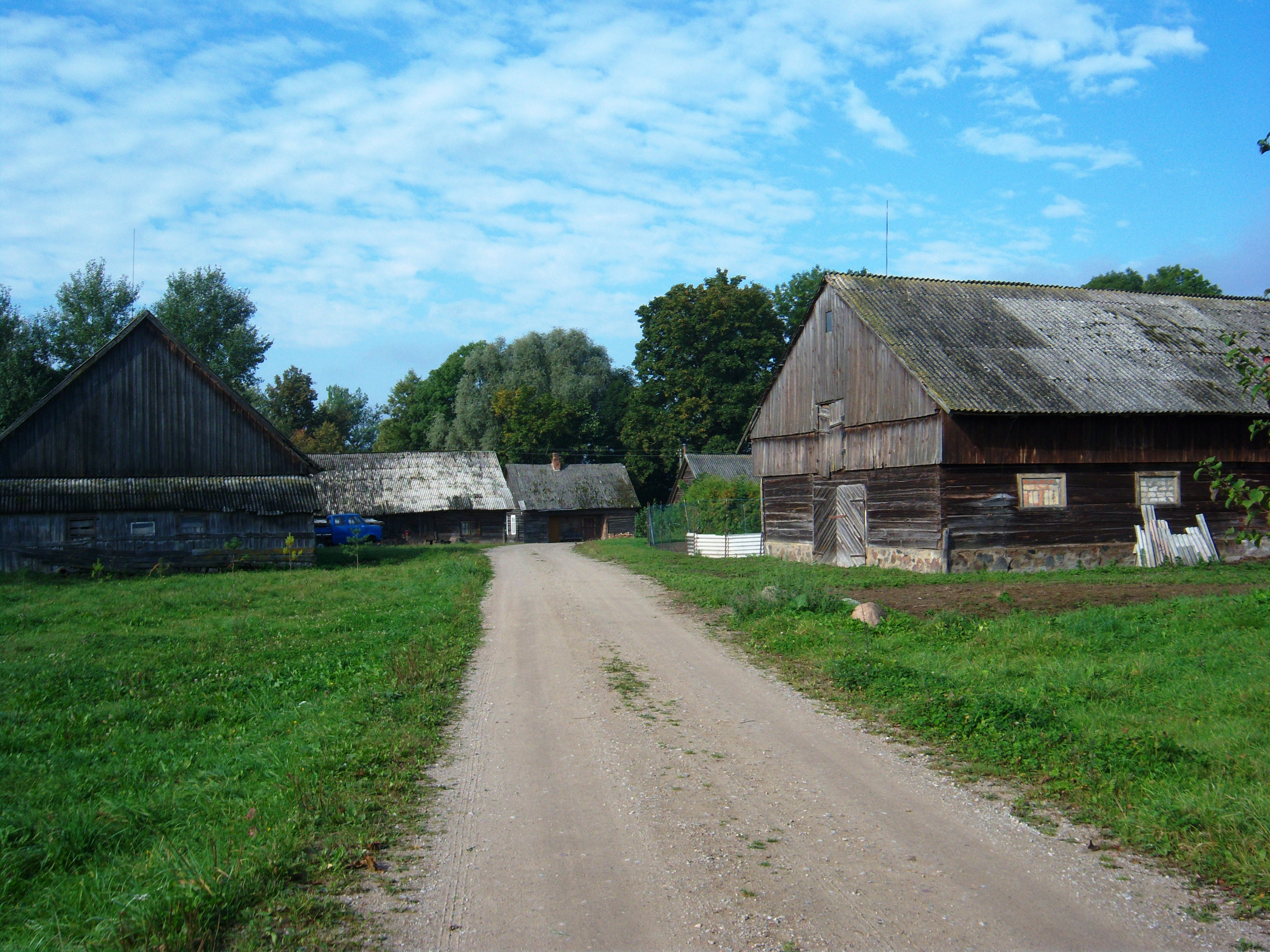 Antupiai, Vilkaviškis District, Lithuania